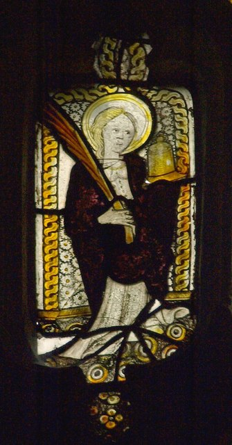 Panel of early 16th-century stained glass in one of the north windows of St Mary's parish church, Norton Sub Hamdon, Somerset. The palm and jar of ointment identify the saint as Mary Magdalene.